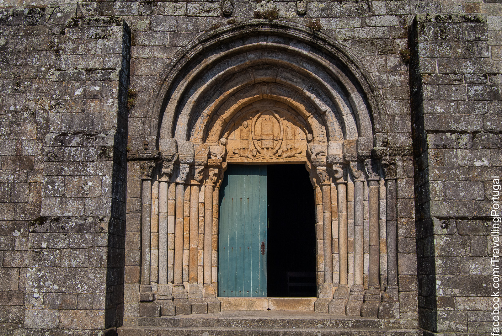 Romanesque church of Sao Pedro de Rates, Povoa de Varzim